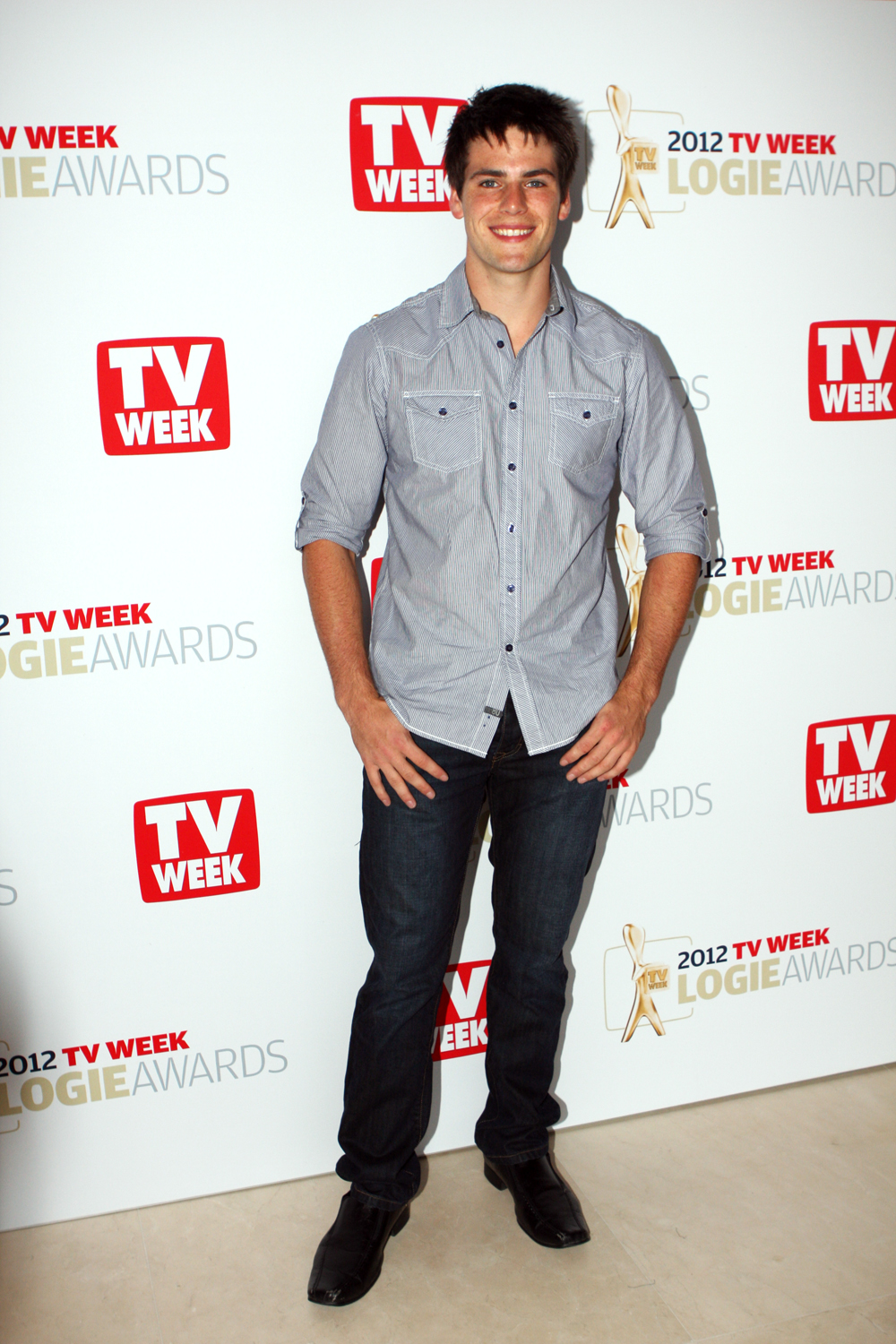 Australian actor James Mason at the TV Week Logie Nominations In Sydney, Australia